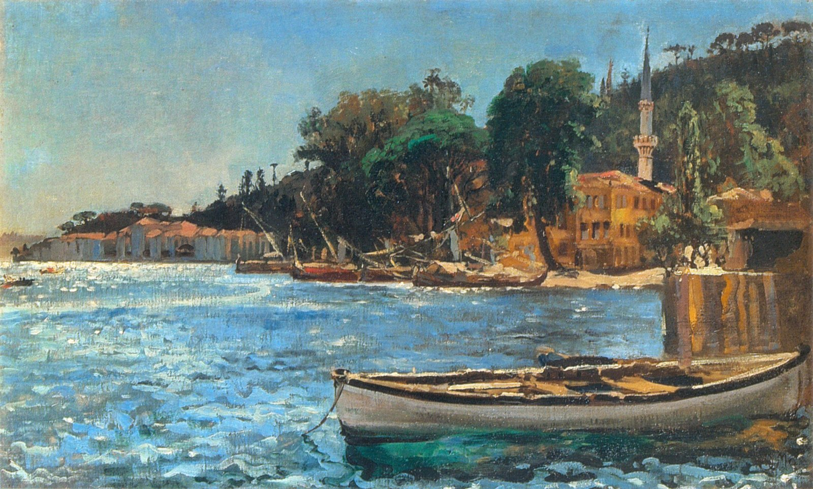 View of Bebek near Constantinople